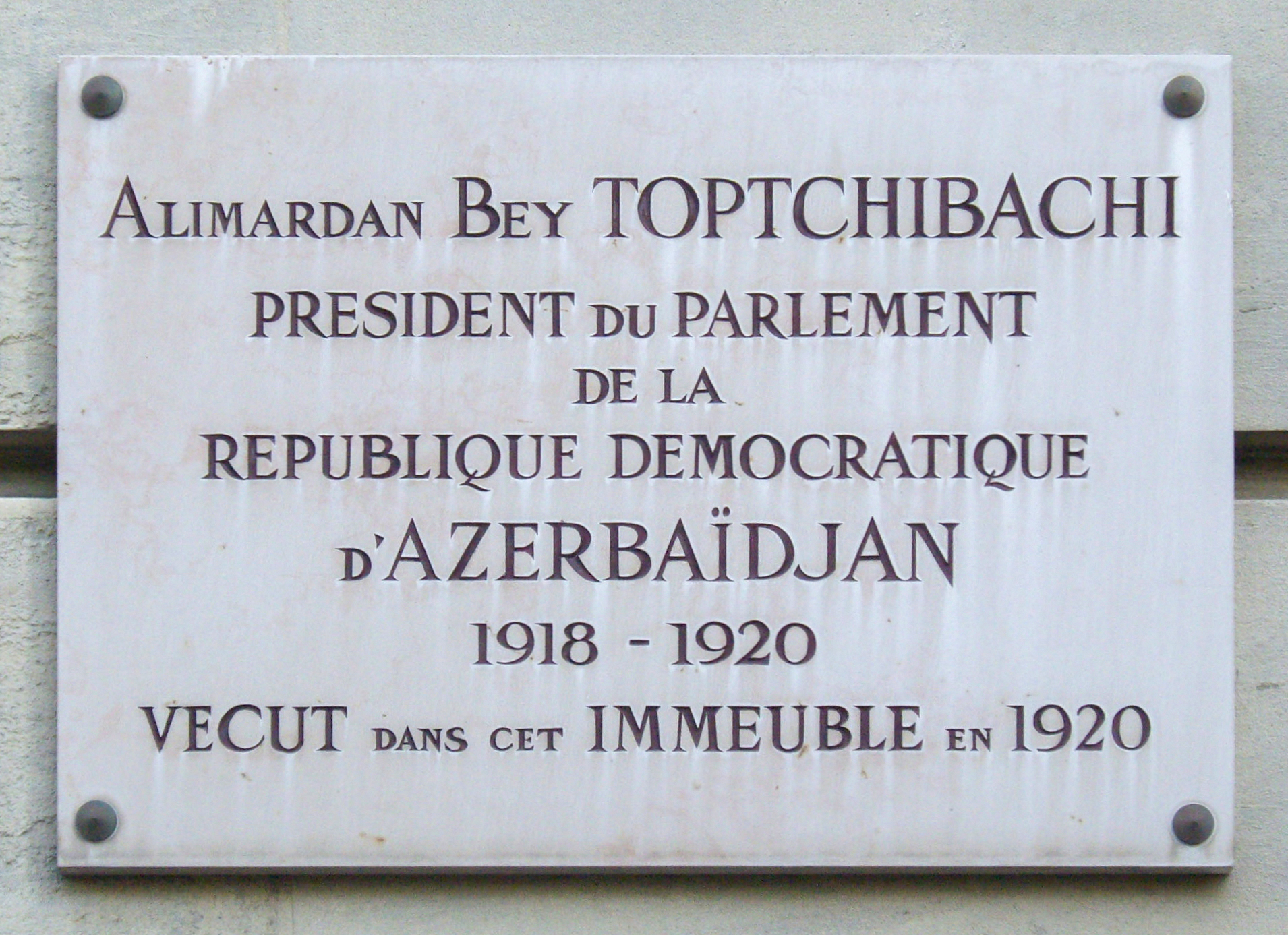 Commemorative plaque, 37 Rue Decamps, Paris 16th. Alimardan Topchubashov (1862-1934) lived in this building in 1920.